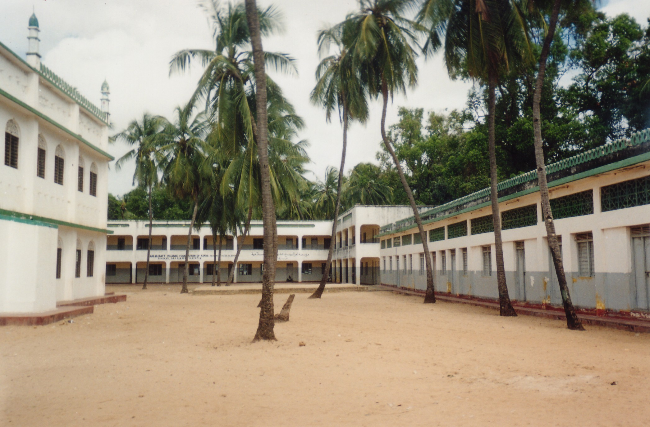 Photo of portion of Swafaa Mosque.